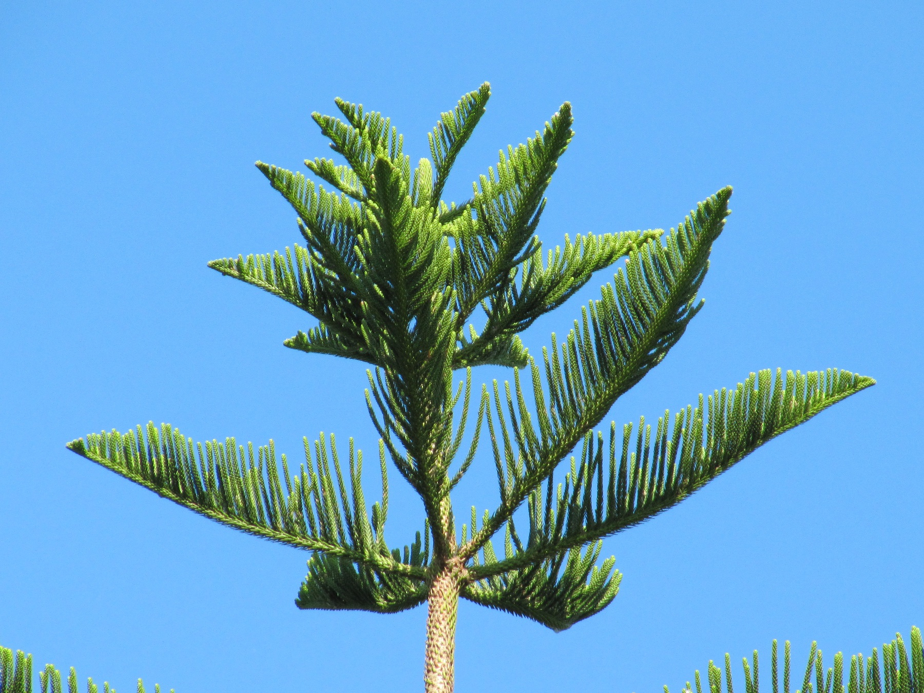 Treetop of a Norfolk Island pine (Araucaria heterophylla). Spotted in São Carlos, Brazil.